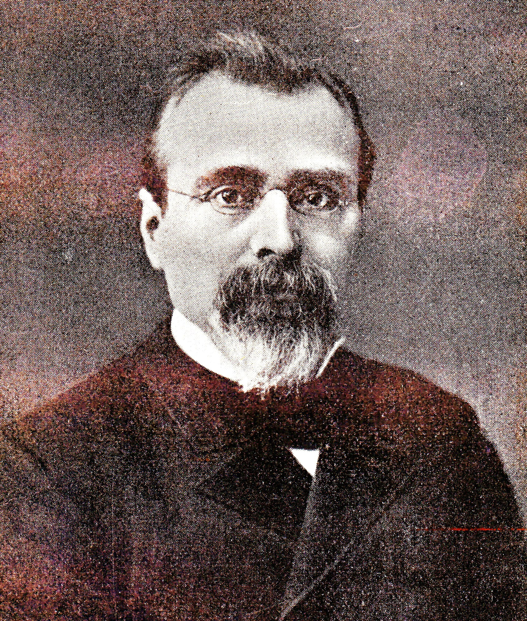 P. Noordhoff